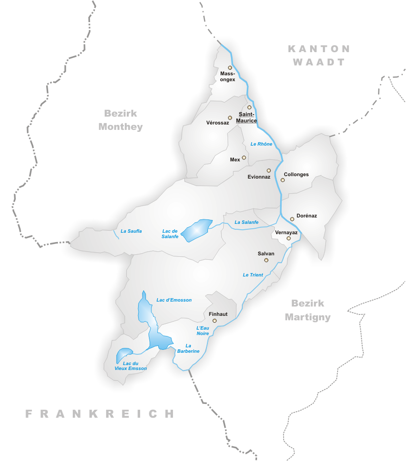 Municipalities of District Saint-Maurice